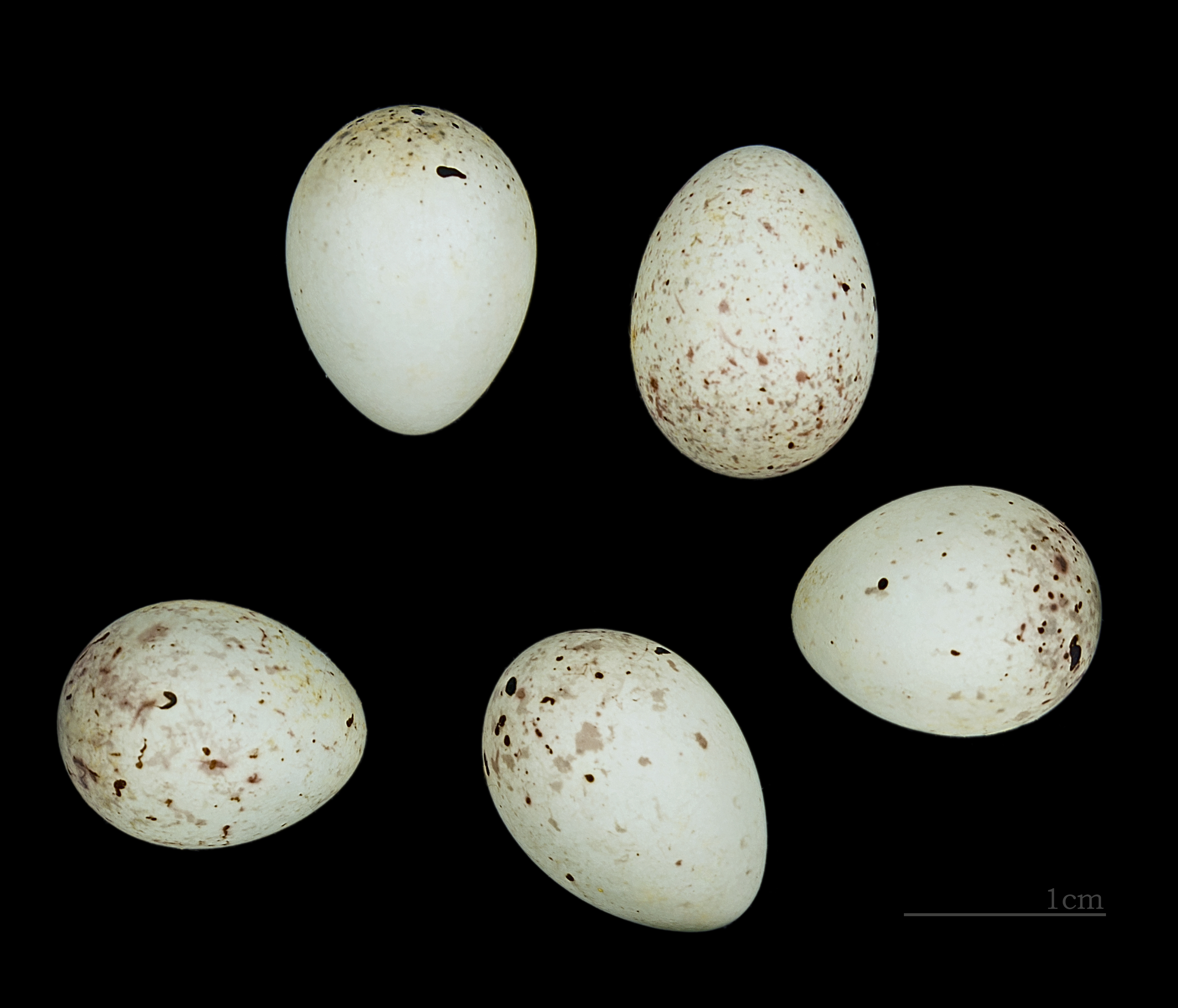 Egg of Citril Finch. Collection of Perrin de Brichambaut.